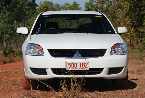 2005–2006 Mitsubishi 380 (DB) sedan, photographed in Australia.